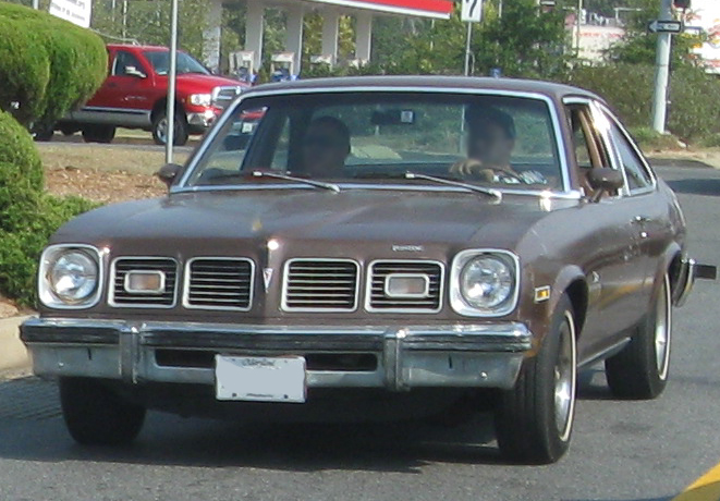 1975 Pontiac Ventura photographed in Accokeek, Maryland, USA.